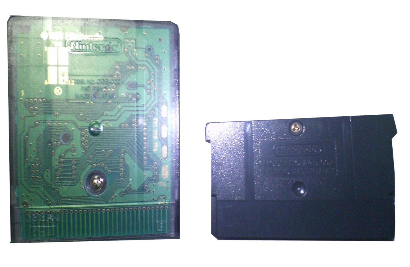 Cartridge compare between Game Boy Color and Game Boy Advance